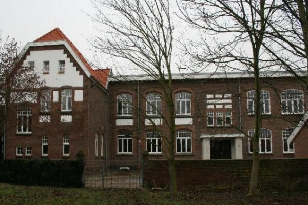 Cultural heritage monument No. 51 in Selfkant